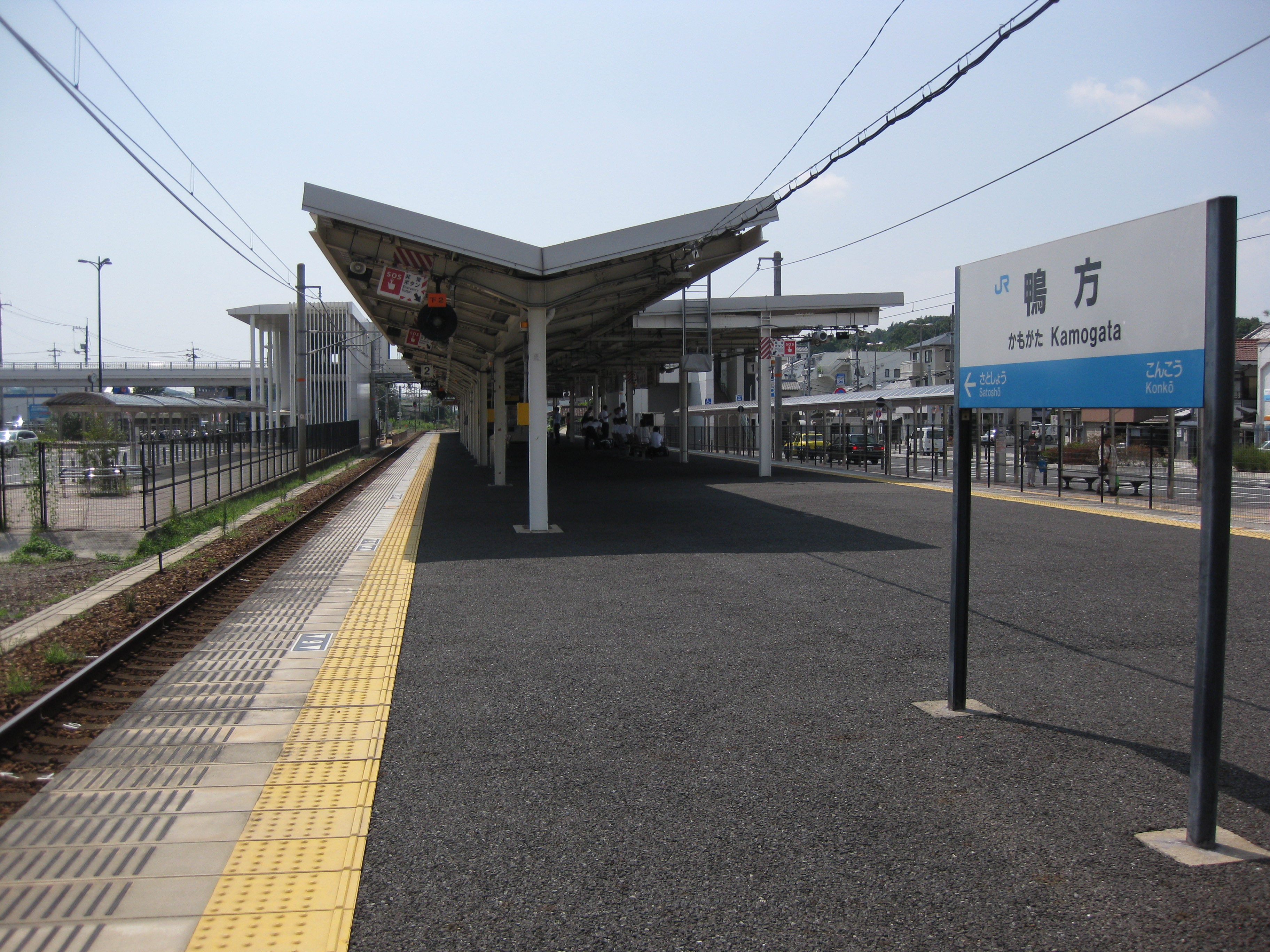 Kamogata Station in Okayama Prefecture, Japan